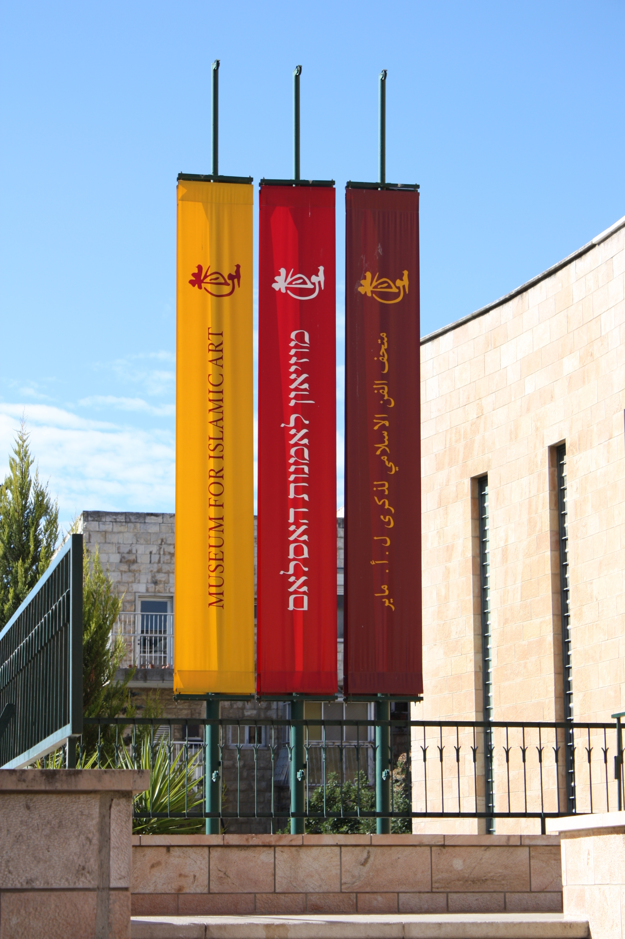 L. A. Mayer Institute for Islamic Art, Jerusalem, Israel